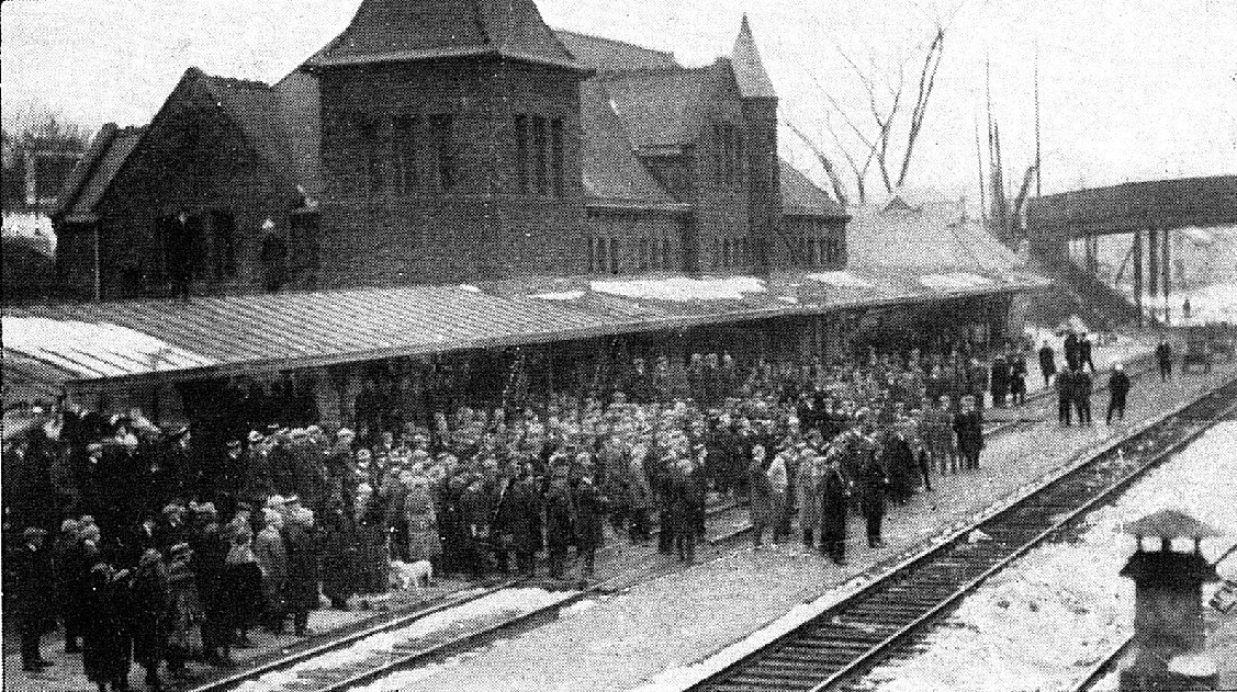 Photograph of crowd at Ann Arbor train station awaiting the return of the Little Brown Jug, November 21, 1920